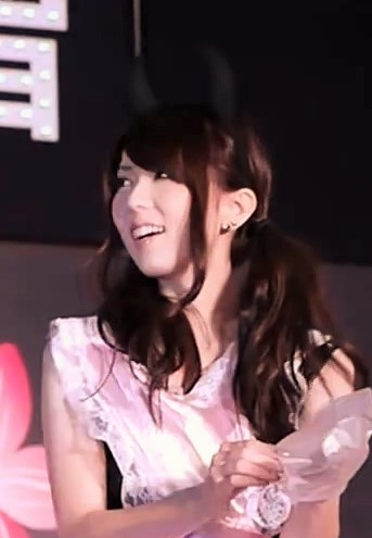 Yui Hatano